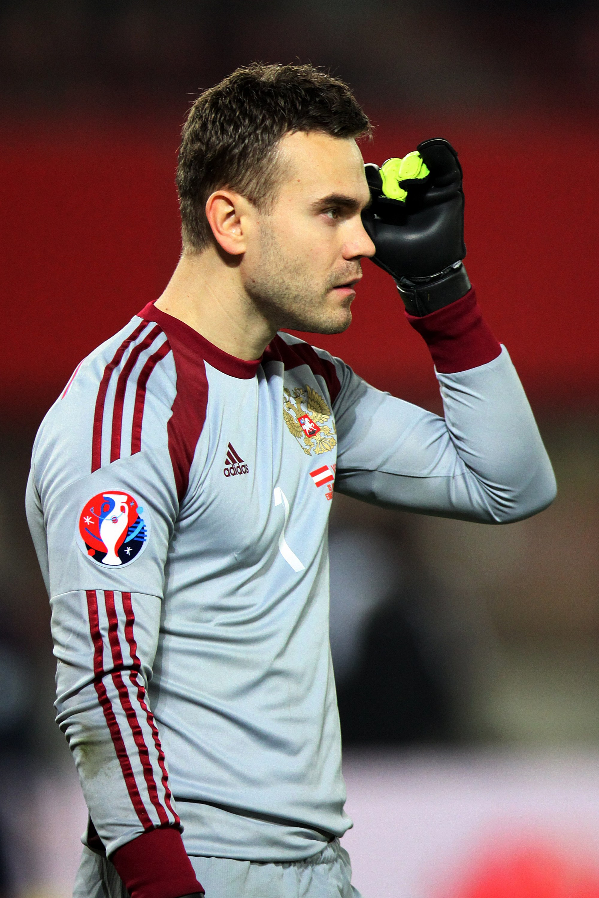 UEFA Euro 2016 qualifying: Austria vs. Russia (1:0 / 0:0) at 2014-11-15 in the Ernst-Happel-Stadion in Vienna. – The photo shows Igor Akinfeev (Russia).